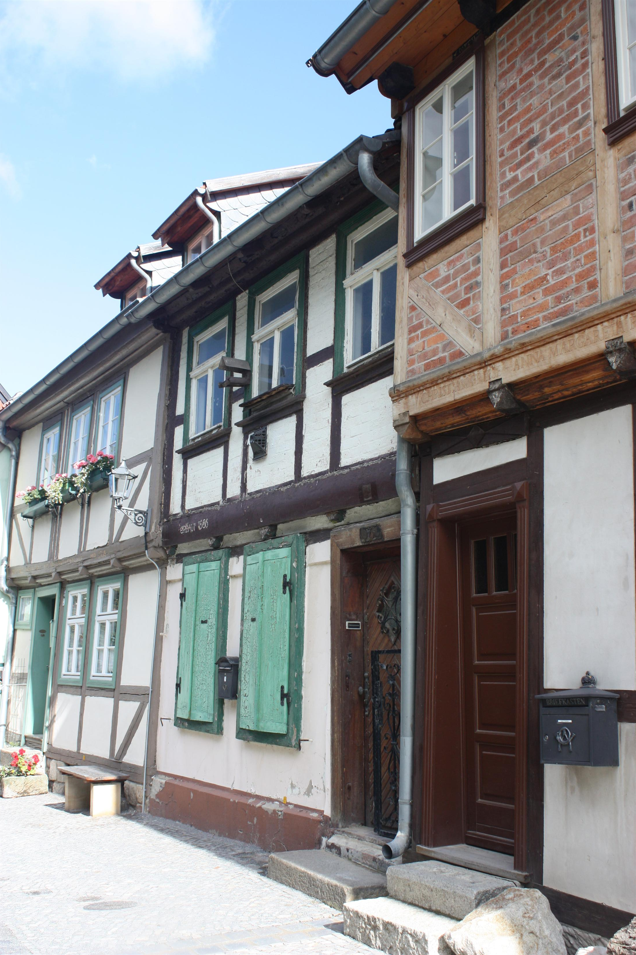 This is a photograph of an architectural monument.It is on the list of cultural monuments of Quedlinburg Quedlinburg Schloßberg